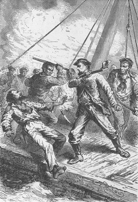 An ilustration from the novel "The Survivors of the Chancellor: Diary of J. R. Kazallon, Passenger" by Jules Verne drawn by Édouard Riou.